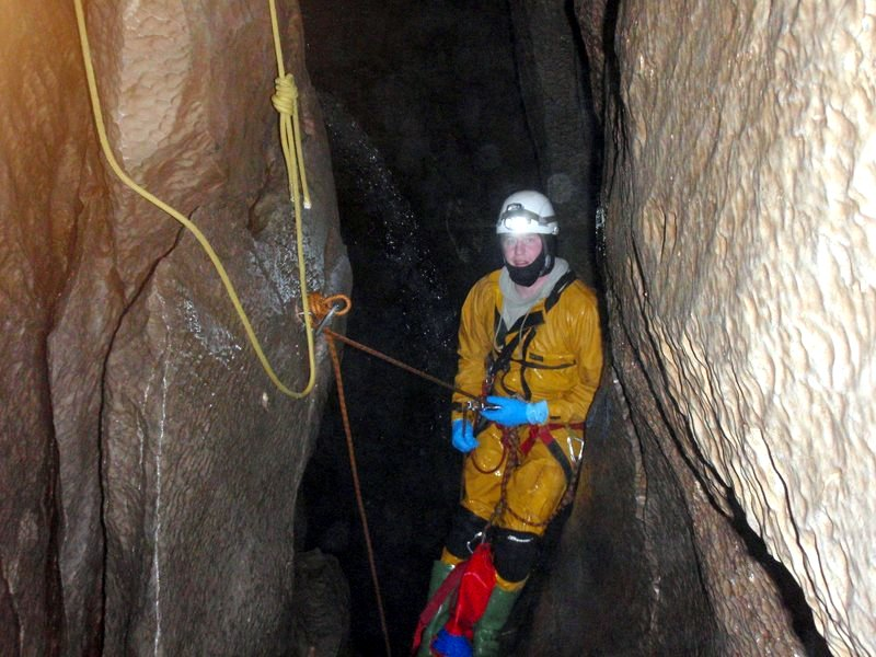 A caver descending Spout Pitch, the penultimate pitch in Swinsto Cave, West Kingsdale, North Yorkshire, England.